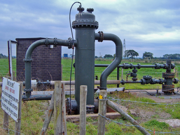 Warmingham: brine well-head Warmingham: brine well pump-head between Hole House and Hill Top Farm. This is probably part of the British Salt Hole House brinefield, similar to the much larger brinefields further north, nearer to Northwich, belonging to Ineos Chlor (formerly ICI). The whole area has underlying Triassic rock salt deposits, solution mined by pumping water down and brine up. This one is right beside the public footpath west of the village.